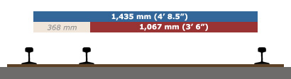 Example of 3-track combined track, combining gauges 1,067 mm and 1,435 mm. The rail weight in this example is 30.0 kgs/m.